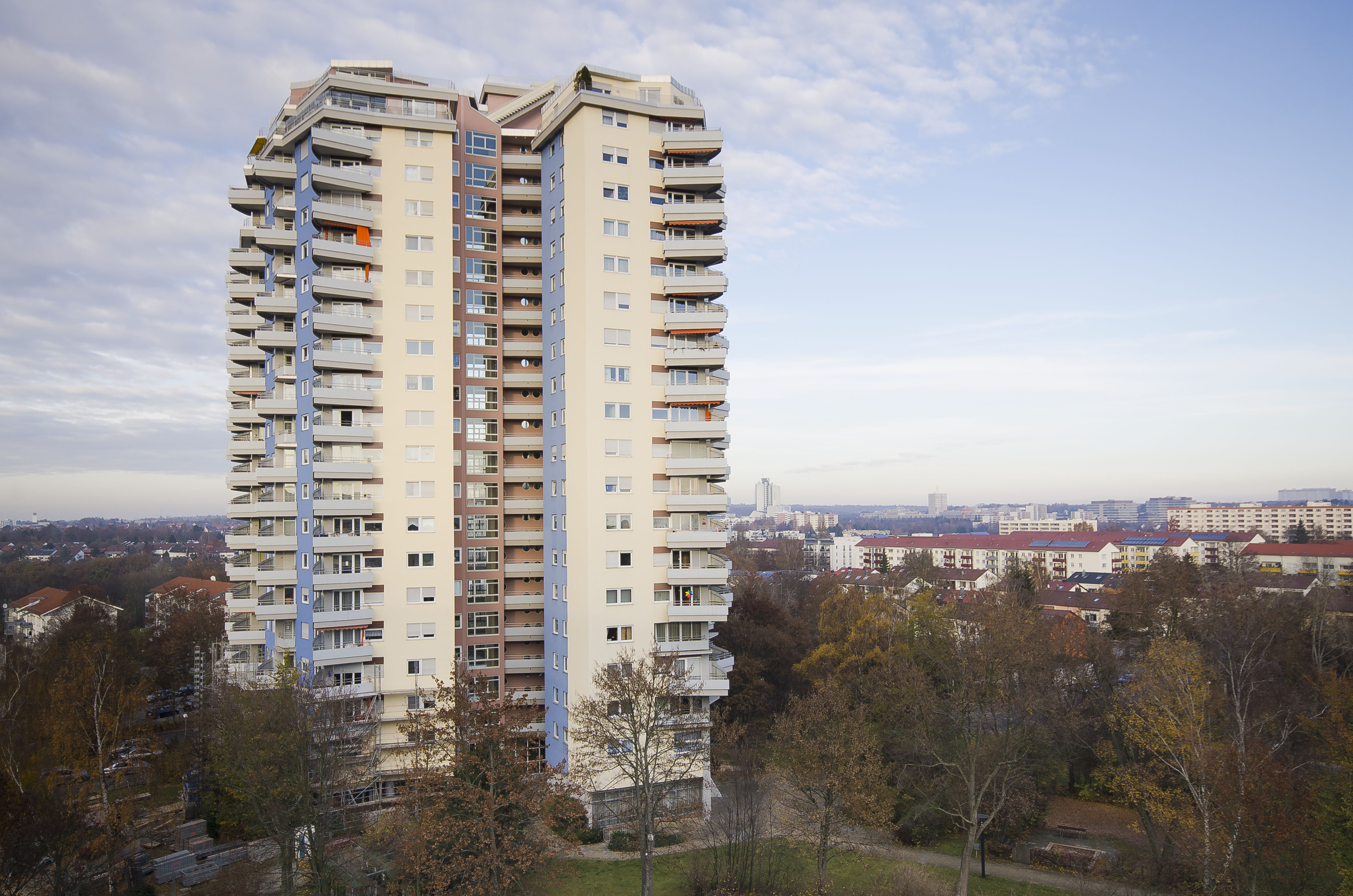 Apartment high-rise "Salute", architect Hans Scharoun, Stuttgart-Fasanenhof, Germany